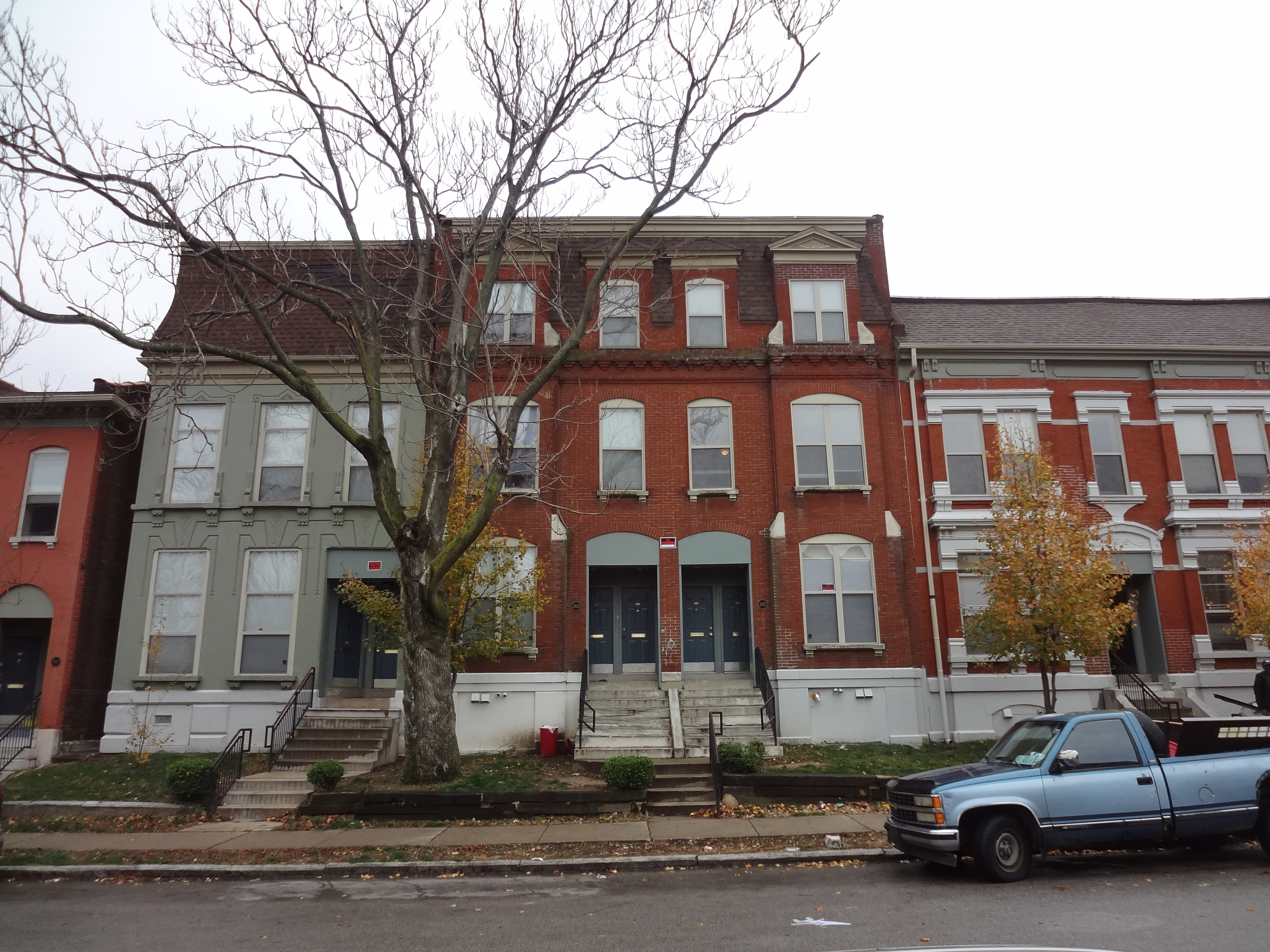 Rowhouses on James Cool Papa Bell Avenue. JeffVanderLou, St. Louis, Missouri.